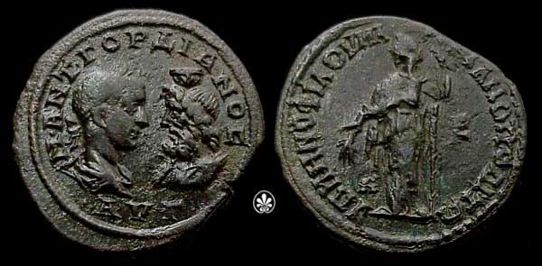 Gordian III & Serapis Æ 28mm of Markianopolis. Magistrate Tullius Menophilus. M ANT GORDIANOC AVG, confronted busts of Gordian & Serapis / VP MHNOFILOU MARKIANOPOLITWN, Demeter standing left with grain ears and long torch; E in field. Pick 1127.